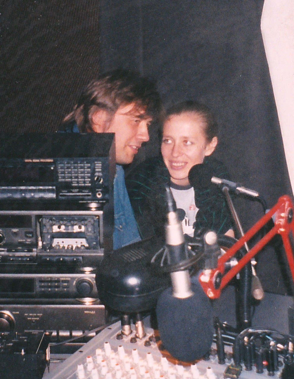 radio interview with Yury Aleabov and Stela Argatu